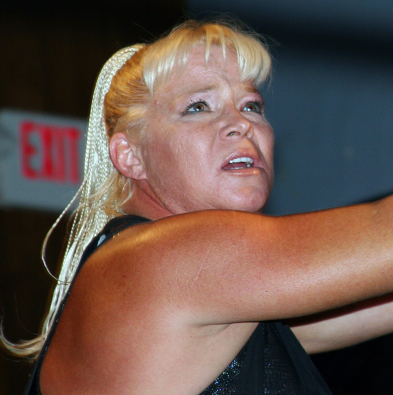 Paparazzo Presents...a photo of wrestler Luna Vachon at the Top Rope Promotions (TRP) professional wrestling show held on June 1, 2007 in Fall River, Massachusetts.